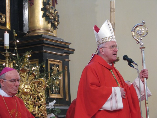 Jan Baxant, bishop of Litoměřice